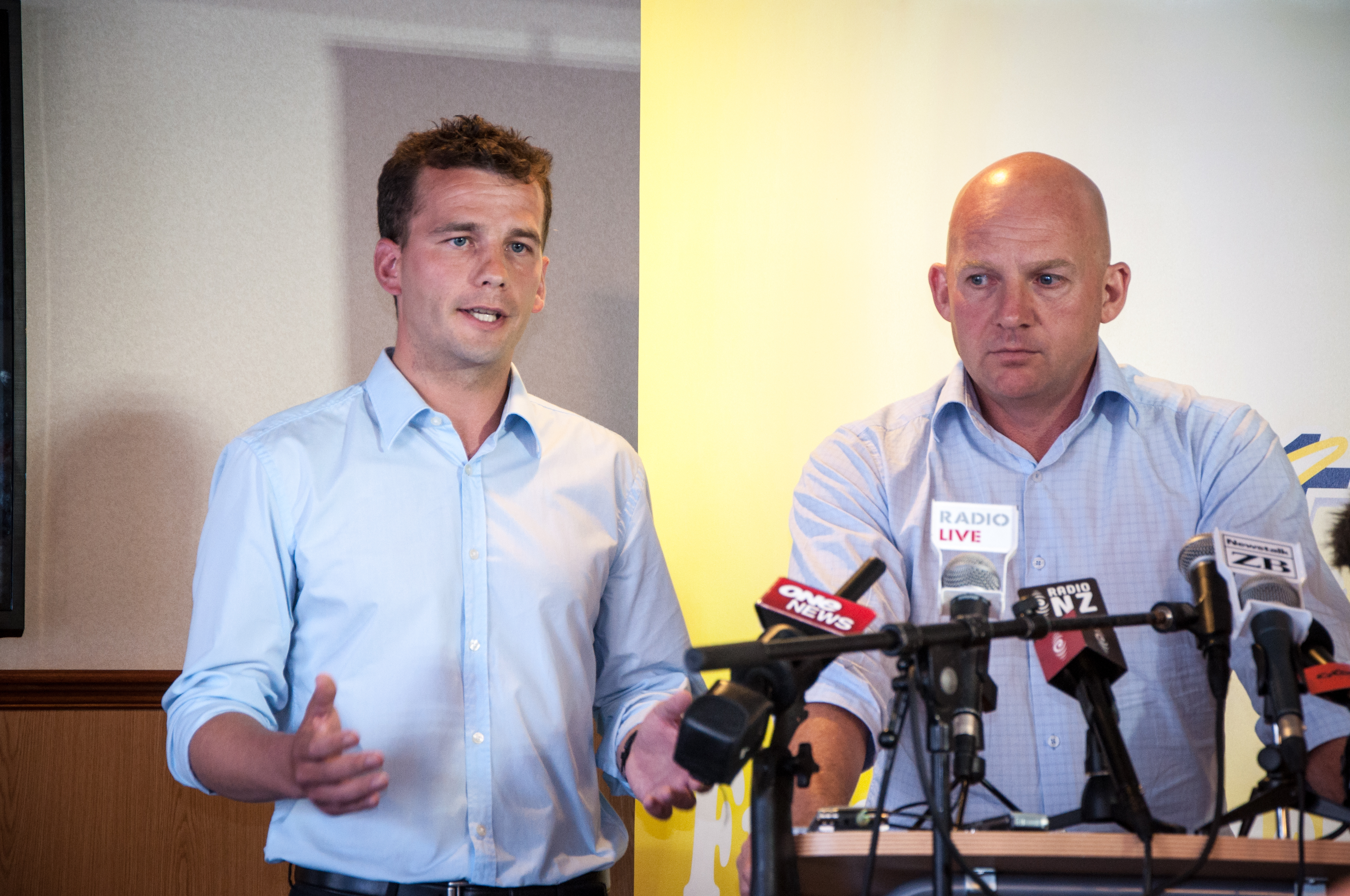 Was taken by myself with a Nikon D90 (I happened to live just around the corner, saw it mentioned on Twitter by journalists so popped across to take a few pics as I fancy myself to be a bit of a keen photographer :-P ). This is from the announcement for the press by ACT of their new candidates (Whyte and Seymour), on Great South Road in Epsom.